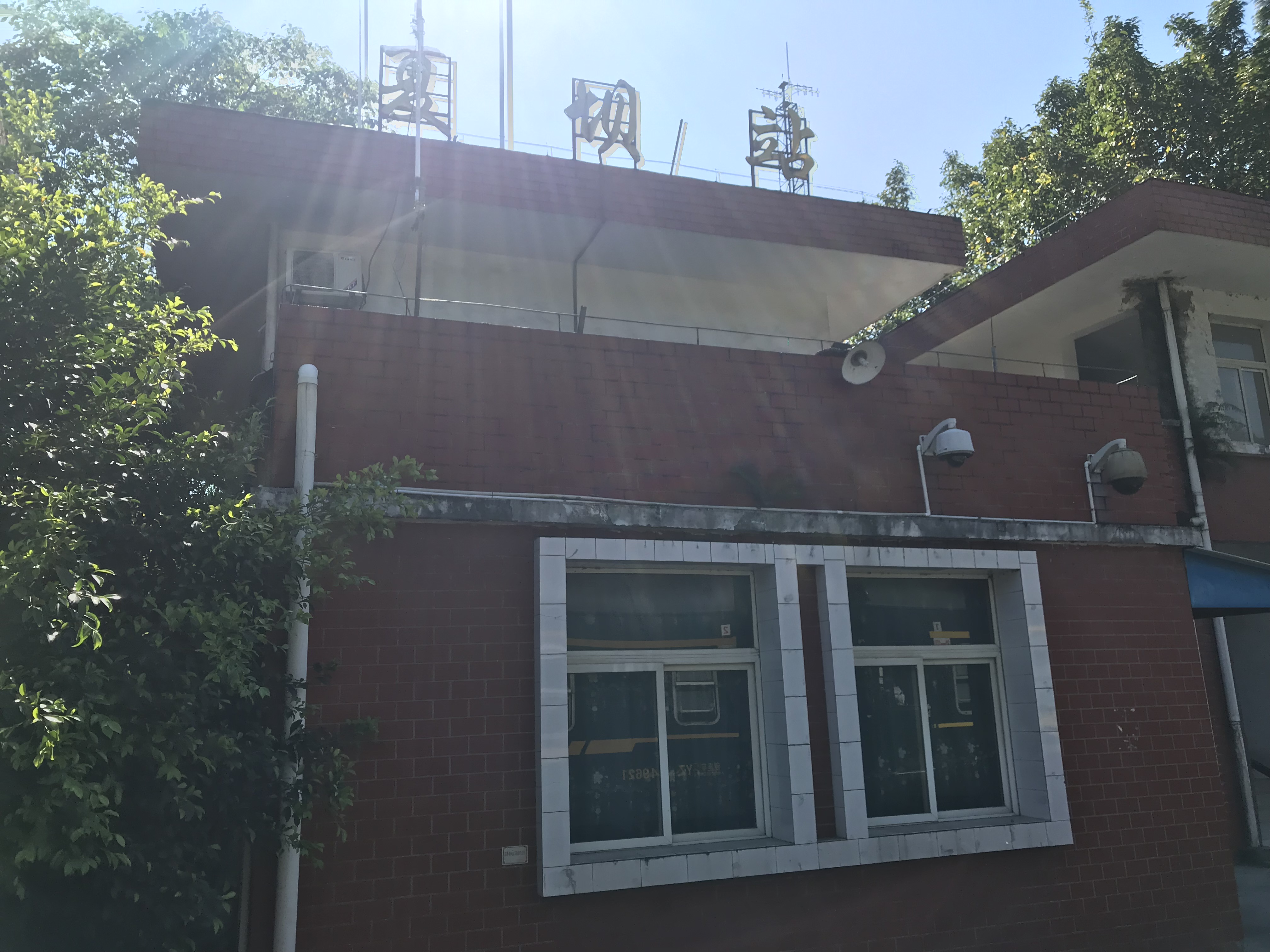 201908 Station Building of Xiaba (2)